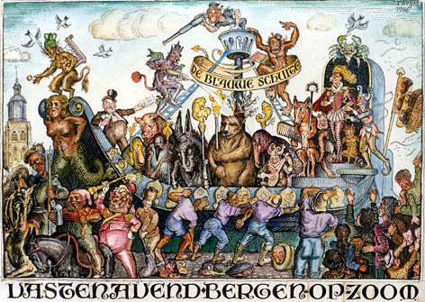 wagen 1946 blauwe schuyte